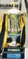 Milk Cup on display.